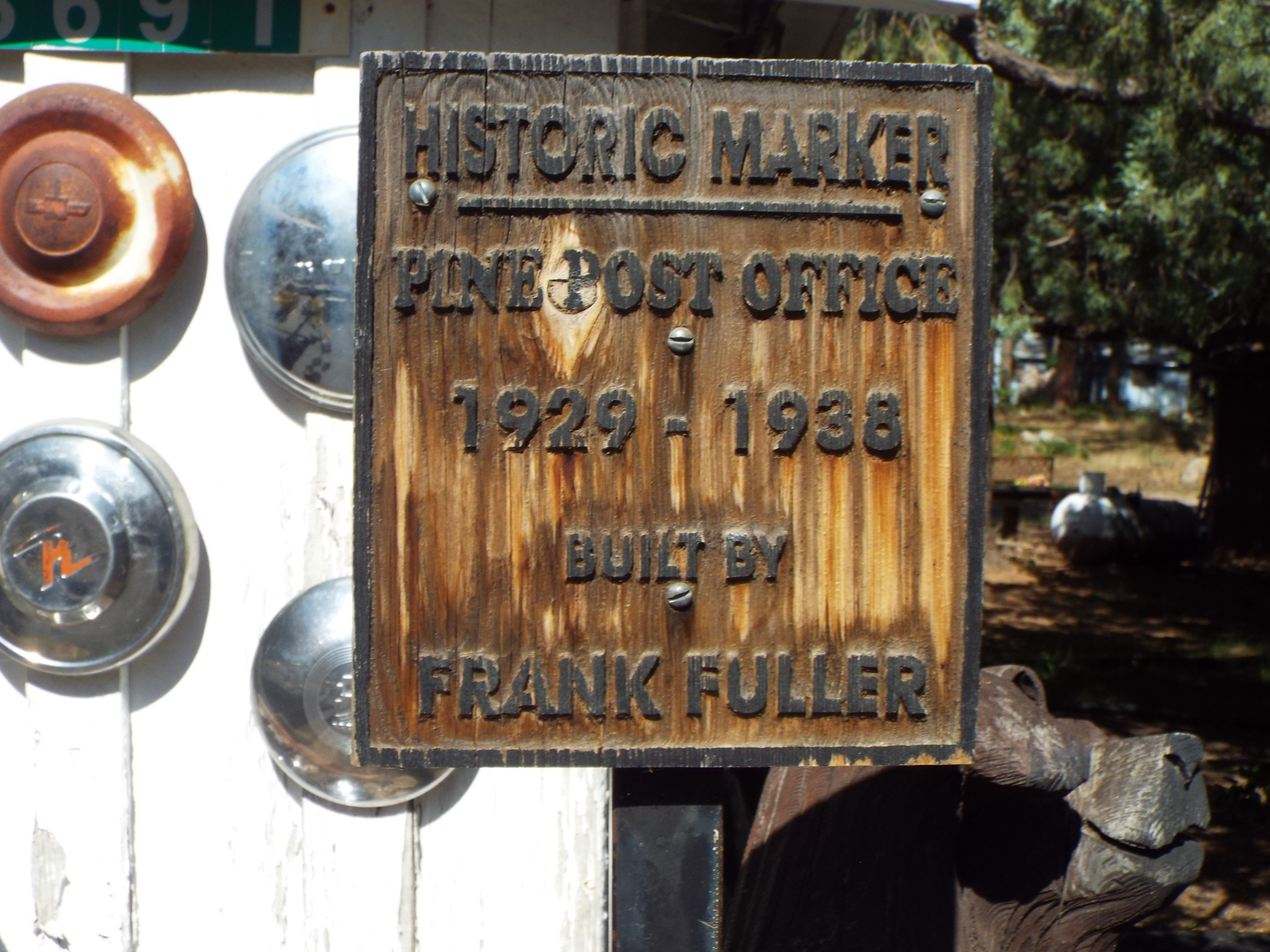 The historic Pine Post Office-1929-Marker